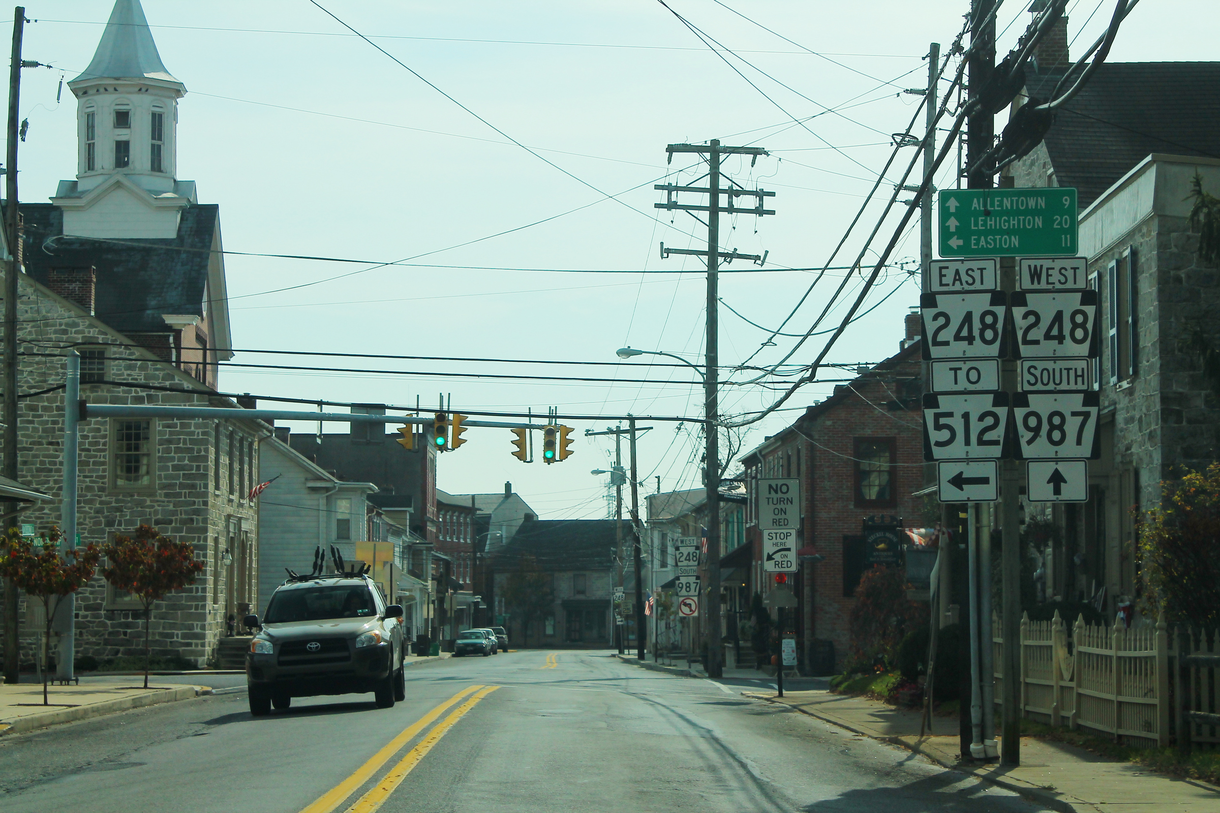 PA987sRoad-ToPA512-PA248ewSigns